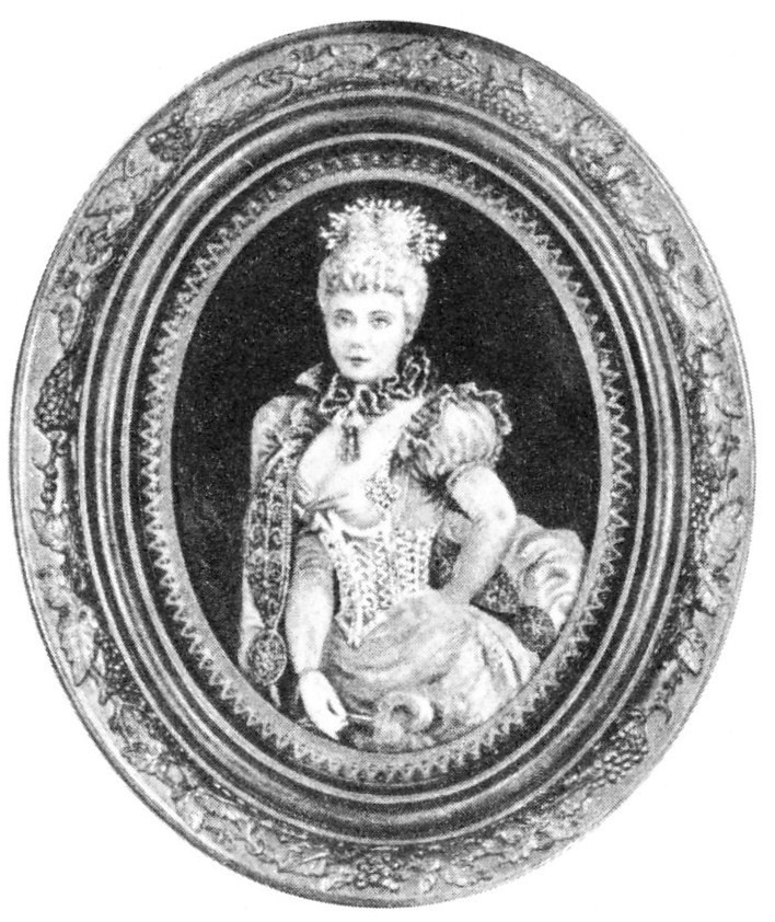 Portrait of Ada Everleigh, painted 1895 in Omaha, Nebraska.